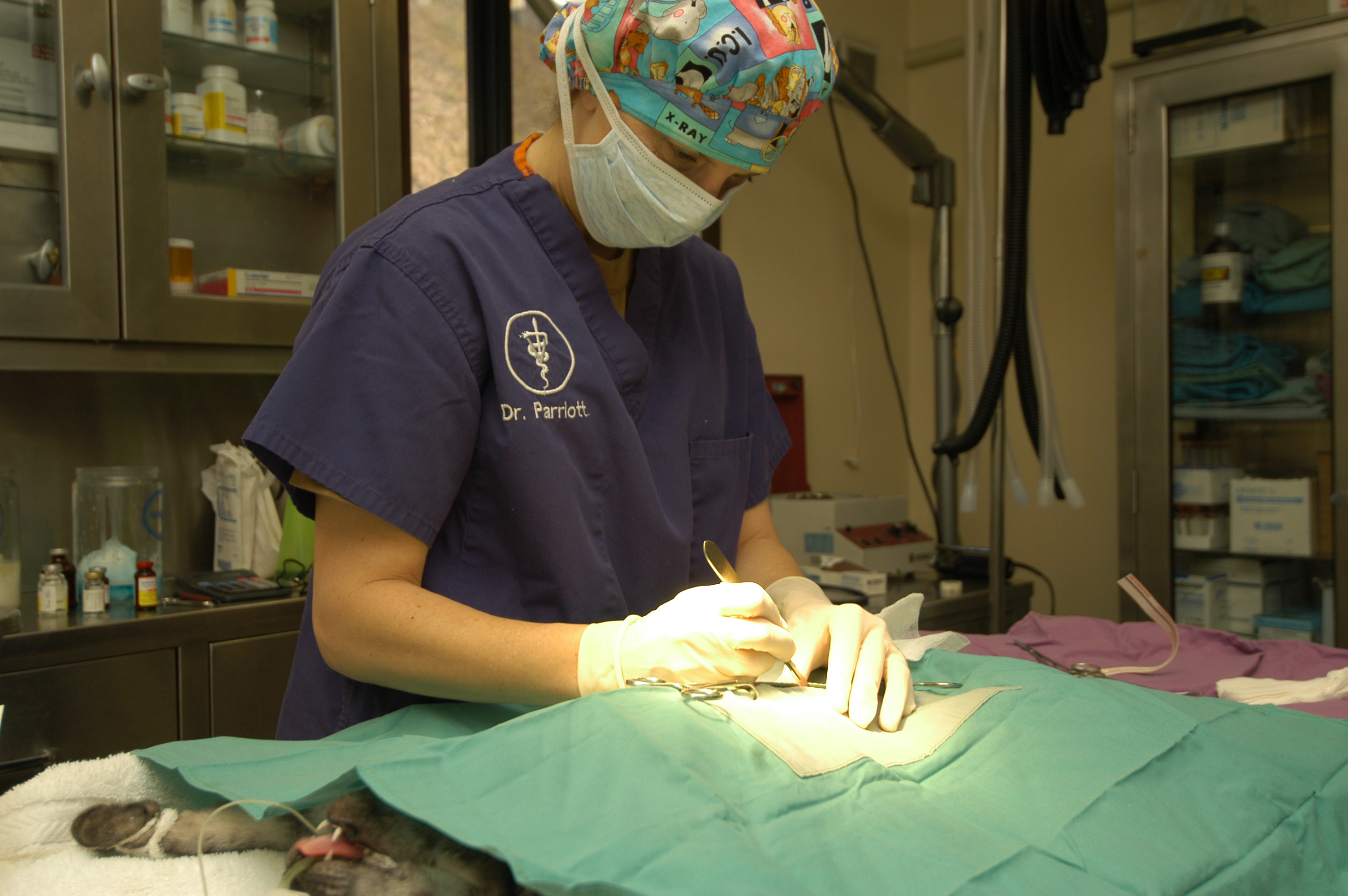 U.S. Fleet Activities Sasebo, Japan (Jan. 29, 2004) - Army Capt. Sandi Parriott conducts a routine spaying procedure on a DOD family housecat. Capt. Parriott is assigned to the Japan District Veterinarian Command, Sasebo, Japan. U.S. Navy photo by Photographer’s Mate 3rd Class Ian W. Anderson. (RELEASED)